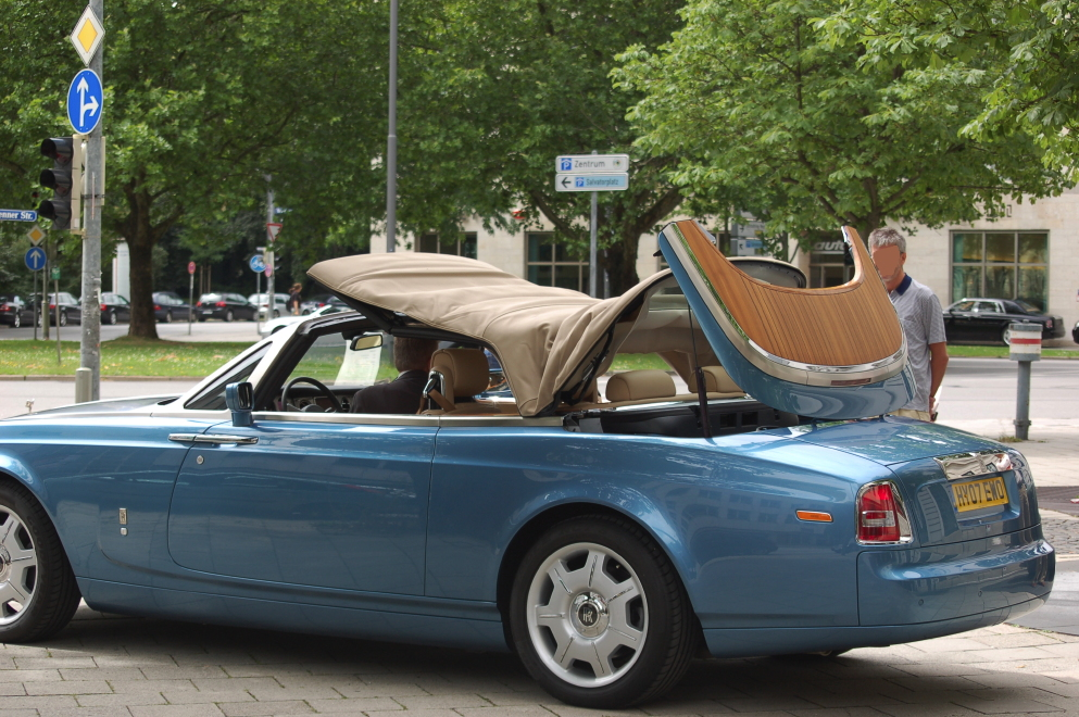 Rolls-Royce New Phantom Drop Head Coupe (DHC)